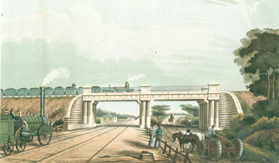 A view of the Intersection Bridge where the St Helens and Runcorn Gap Railway crossed over the Liverpool and Manchester Railway near Sutton, St Helens, the first bridge of one railway over another in the world. The St Helens and Runcorn Gap railway was primarily a freight line, designed to take coal traffic from near St Helens south to the River Mersey. It opened in 1833, engineered by Charles Blacker Vignoles who had previously worked on the Liverpool and Manchester line. There was also an east/north junction just to the east between the two lines, called St Helens Junction. Here a coal train on the St Helens line passes above a locomotive on the Liverpool to Manchester line which would appear to be Stephenson's Northumbrian or one of its sisters. The engine drawing the coal wagons may be intended as a representation of Ericsson and Braithwaite's Novelty, with its distinctive upright boiler.This plate was included as an extra by Ackermann & Co in bound editions of Bury's Coloured Views on the Liverpool and Manchester Railway from 1832 onwards; it was also available separately, priced at 4s 6d.The St Helens line closed in the mid 1980s, and the track was lifted. The final remains of the bridge deck were removed in February 2012 [1], pending electrification of the Liverpool and Manchester line.